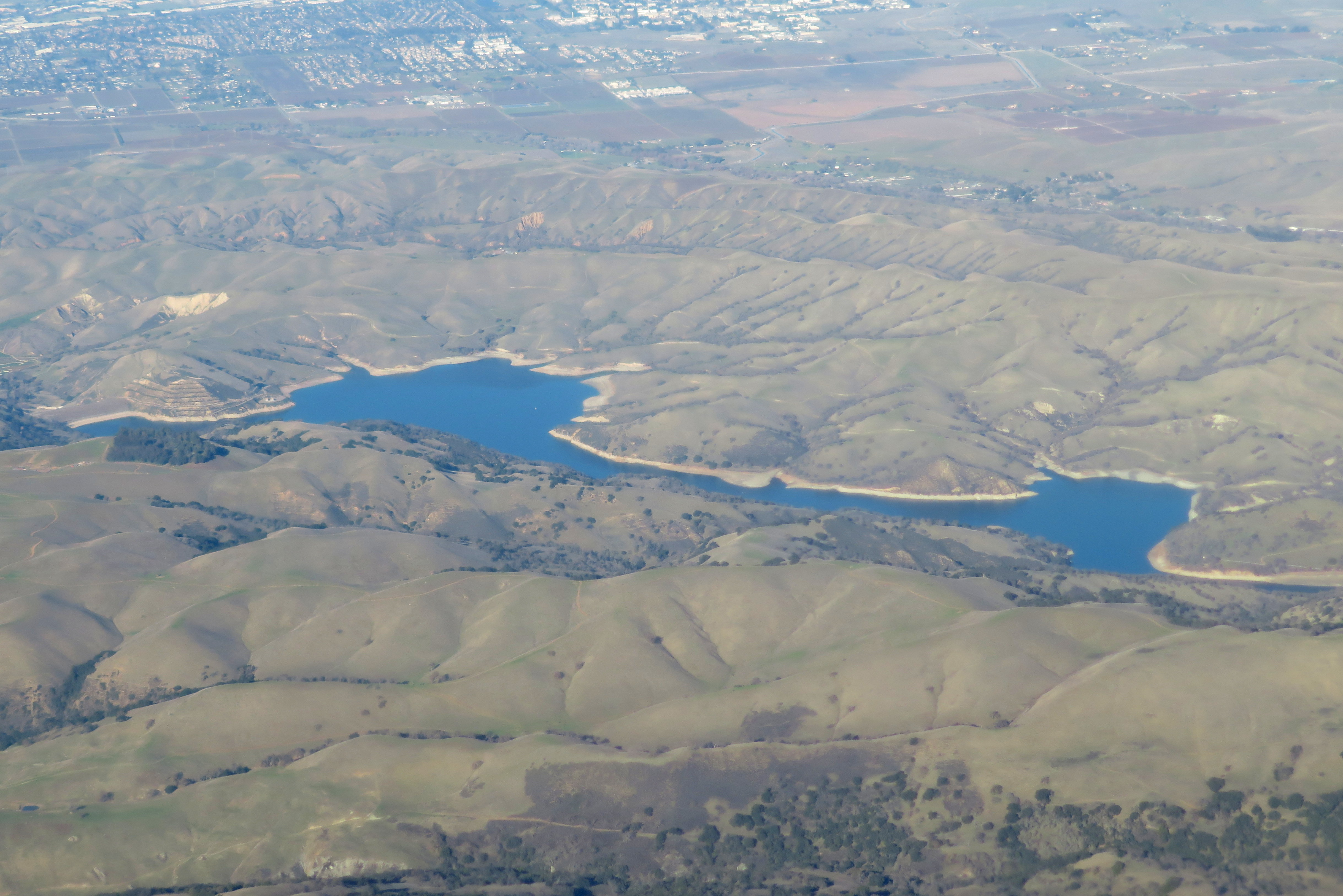 Aerial view of Lake Del Valle in December 2018